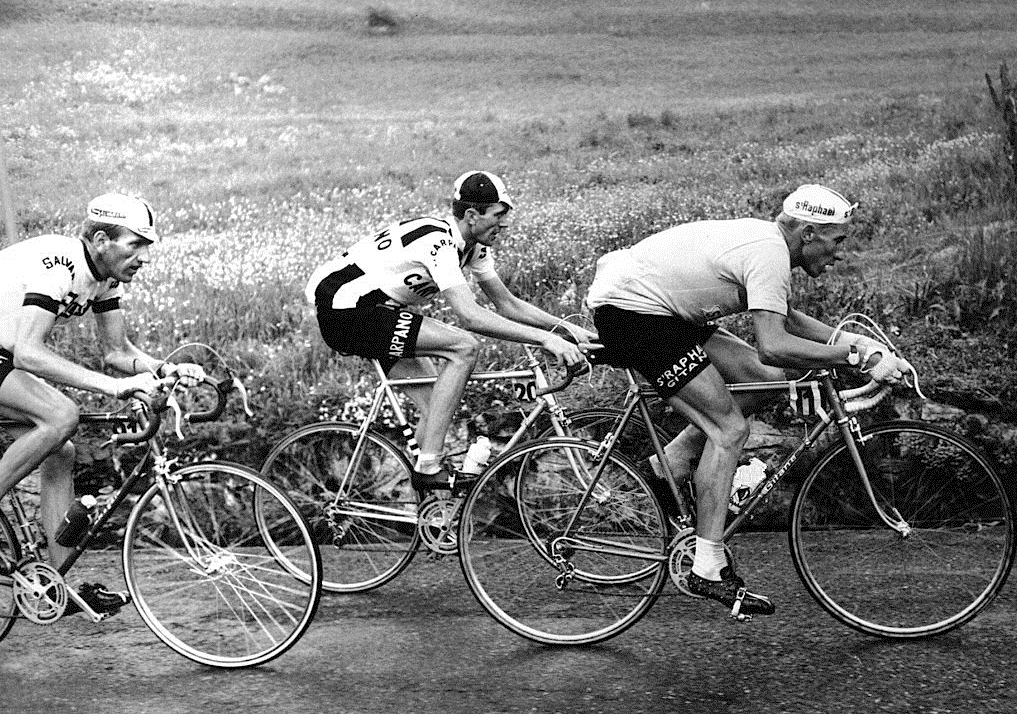 Cyclists Italo Zilioli, Jacques Anquetil and Vittorio Adorni cycling the 21st stage of the Giro d'Italia Turin-Biella. Piedmont, 6th June 1964